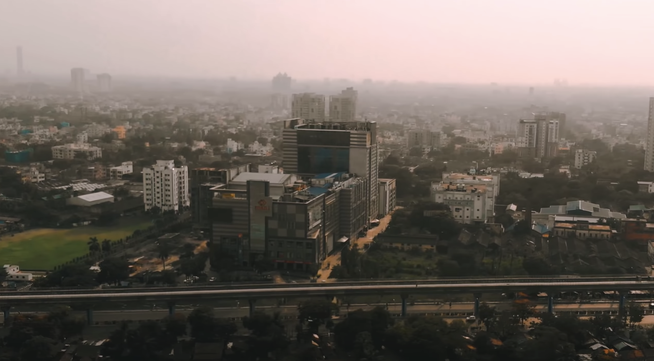 Aerial View of the Mani Square Mall in Kolkata